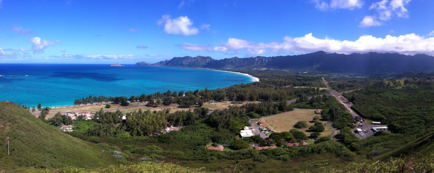 Bellow's Air Field from above Lanikai